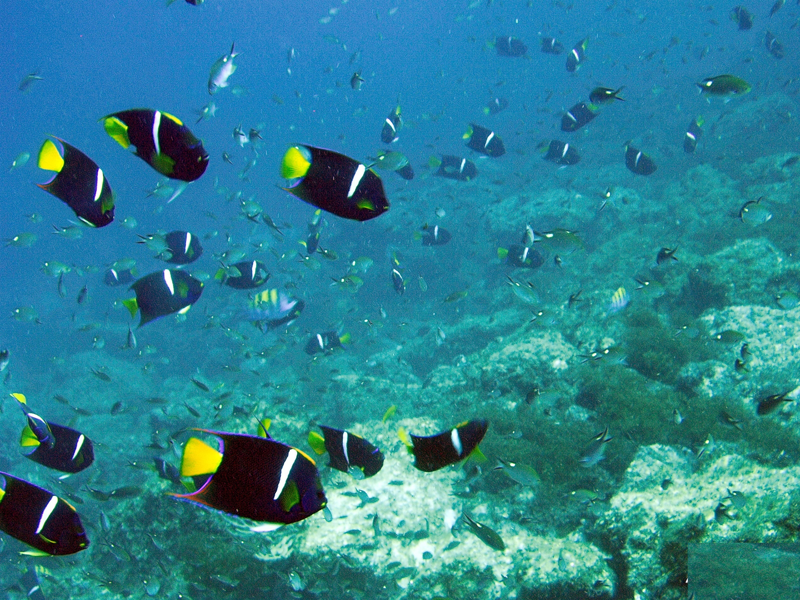 Reef Fish 1 at Lighthouse site